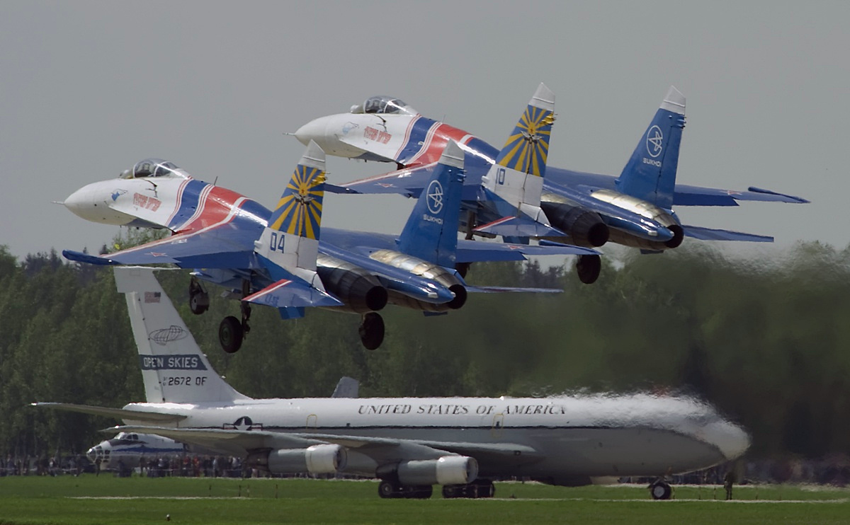 «Russian Knights» lifting